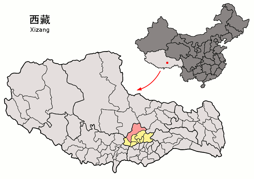 Location of Damxung County (pink) and Lhasa prefecture (yellow) within Tibet Autonomous Region (Xizang) of China